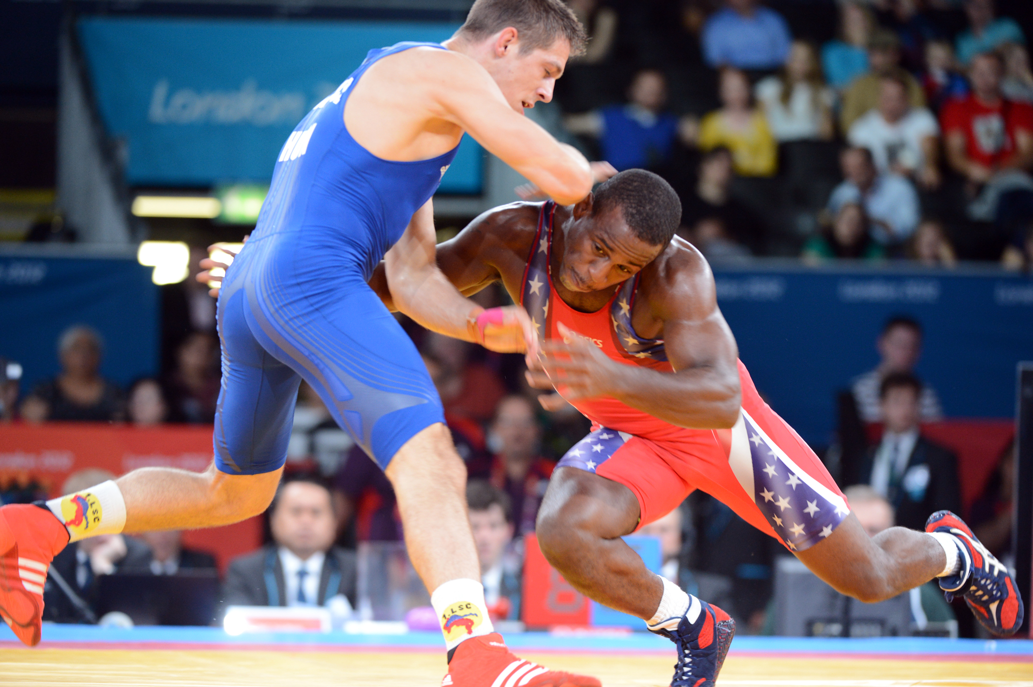 U.S. Army World Class Athlete Program wrestler Spc. Justin Lester (right), seen here competing in the 2012 Olympic Games in London, won the Greco-Roman and freestyle gold medals for the 74-kilogram/163-pound weight classes to help All-Army wrestlers win both team titles at the 2013 Armed Forces Wrestling Championships, held March 16-17, 2013, at Joint Base Dix-McGuire-Lakehurst, N.J.